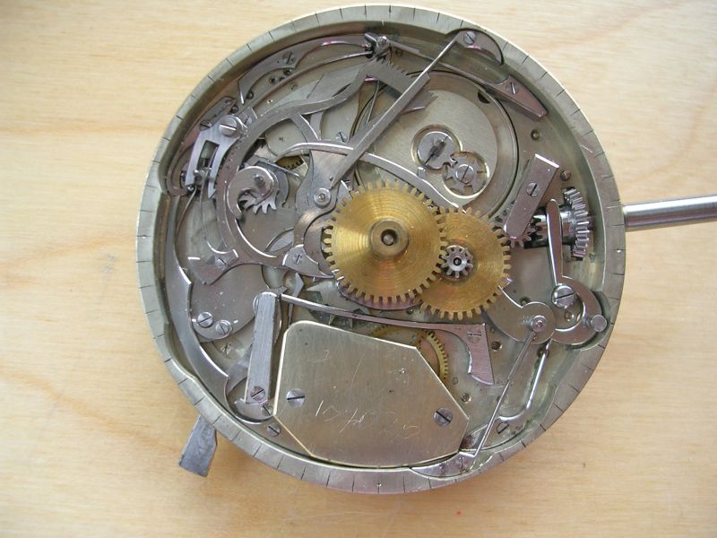 Minute repeater movement. Dates from about 1900. This is a raw movement (also known as Ebauche). Most probably Swiss